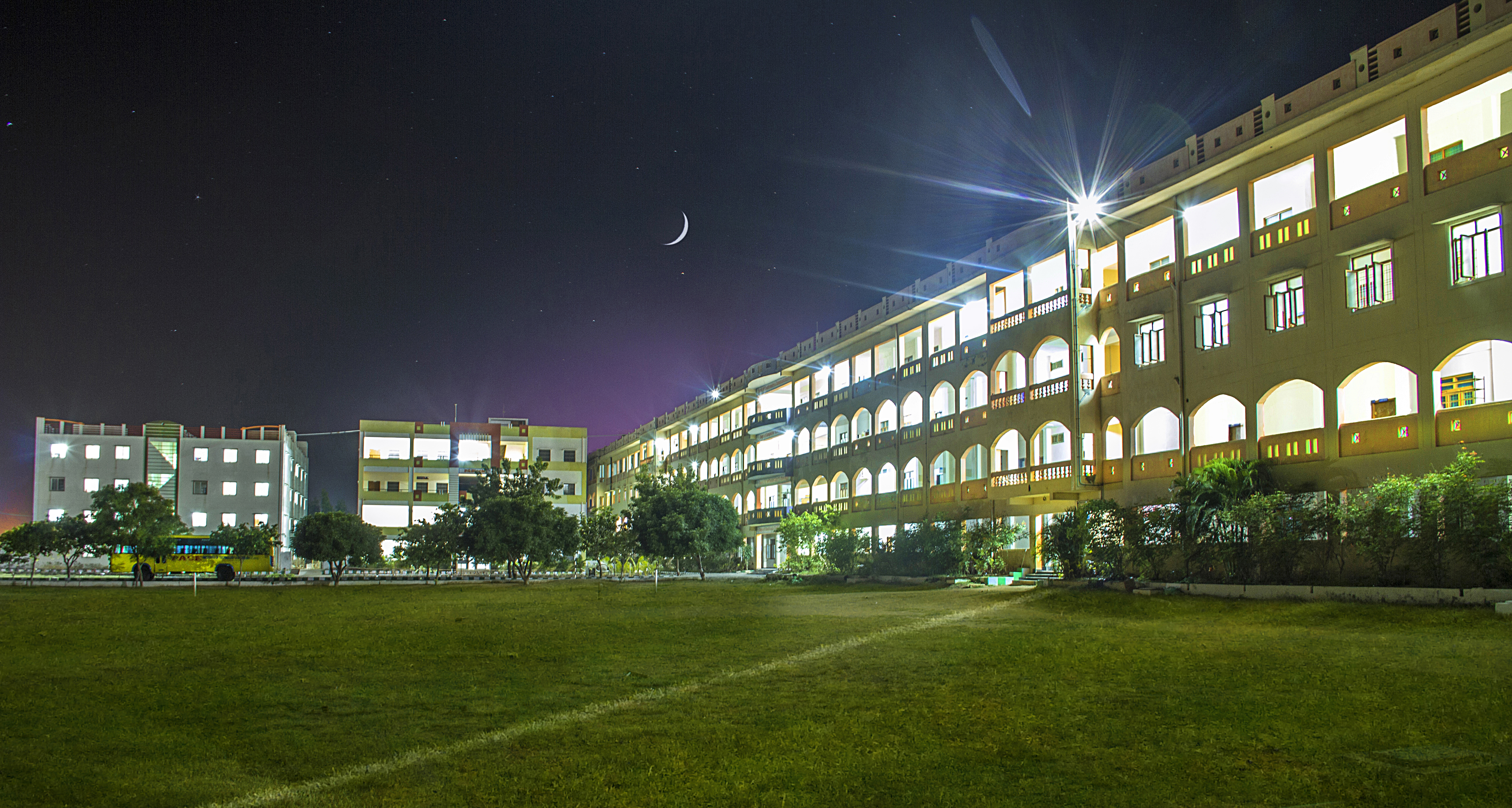 Pace Mani Building Night time.